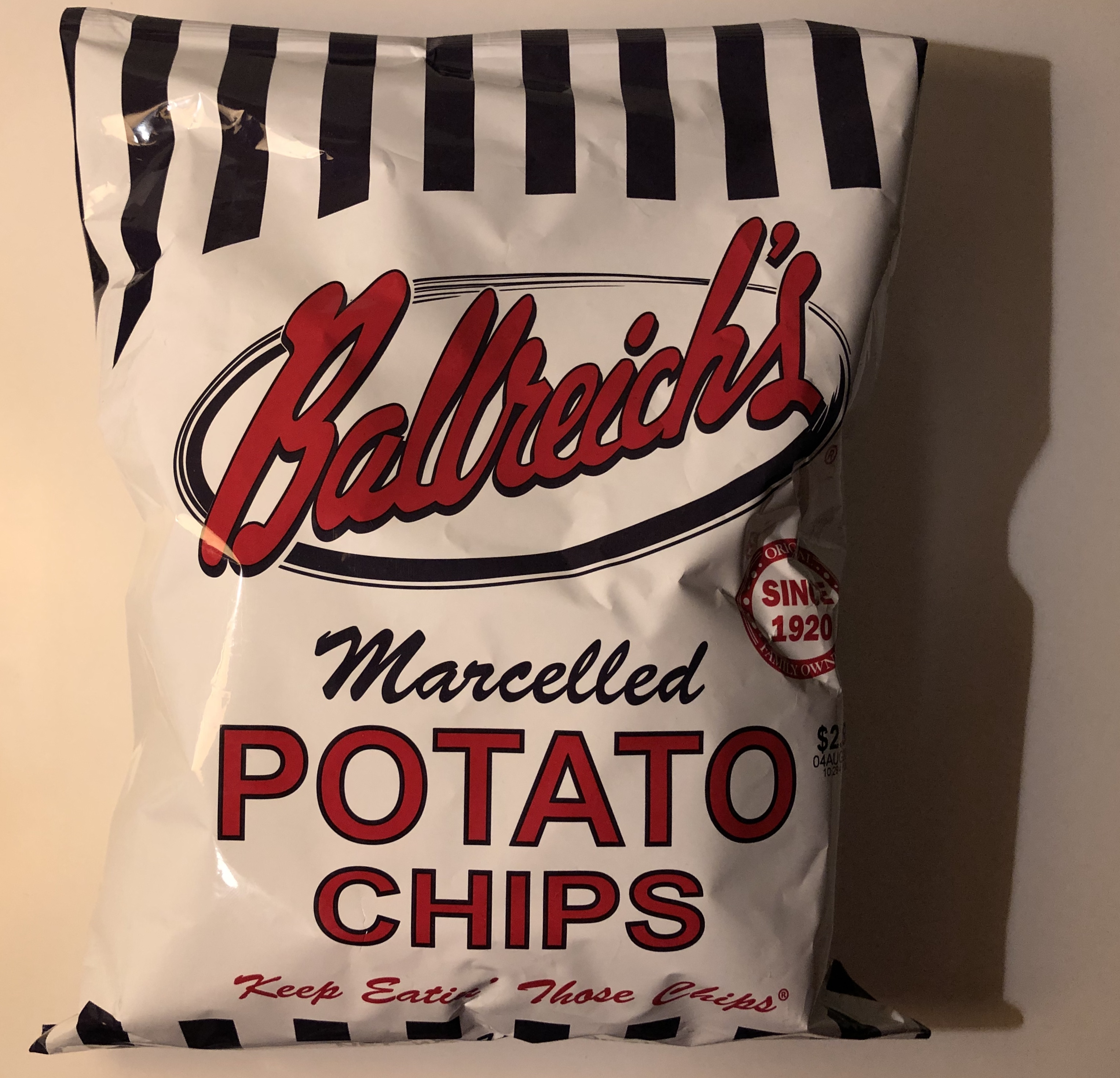 A bag of Ballreich's Marcelled Potato Chips